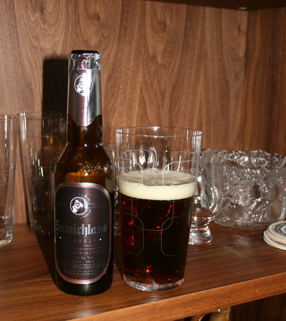 A bottle and glas of Samichlaus